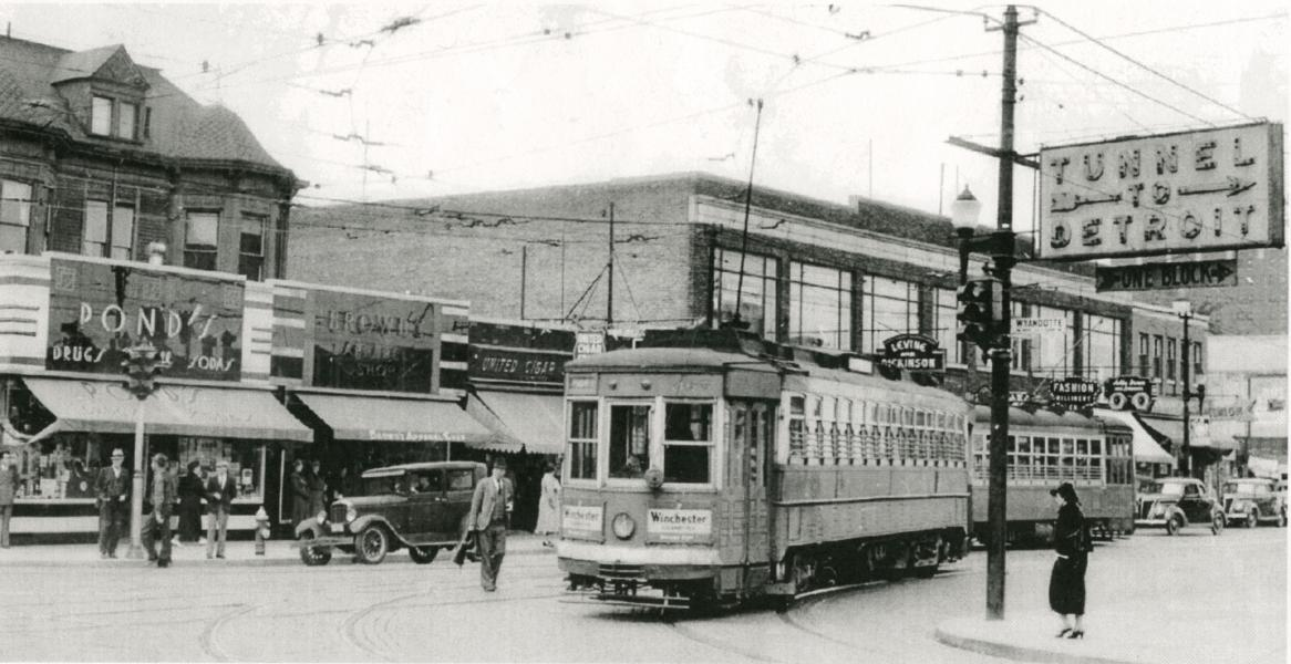 Streetcars in downtown Windsor in the 1930. Original caption: “Identifier(s): Acc. No. 08-022 Source: Walkerville Times Collection Notes: c. 1938; looking north along Ouellette Avenue at the intersection of Wyandotte Street; the streetcar tracks were torn up in 1939; a sign for the tunnel entrance is visible. Subject(s): Ouellette Avenue (Windsor)Commercial BuildingsStoresStreetcarsAutomobilesWyandotte Street (Windsor)Pond's Drug Store (Windsor)Brown's Apparel Shop (Windsor)United Cigar Store (Windsor)Levine And Dickinson (Windsor)Windsor Detroit Tunnel”